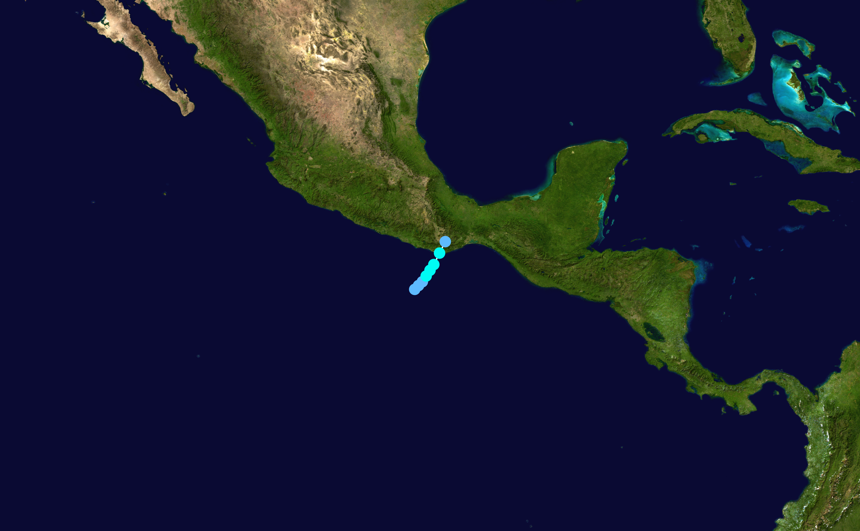 Track map of Tropical Storm Beatriz of the 2017 Pacific hurricane season. The points show the location of the storm at 6-hour intervals. The colour represents the storm's maximum sustained wind speeds as classified in the Saffir–Simpson scale (see below), and the shape of the data points represent the nature of the storm, according to the legend below. Saffir–Simpson scale Tropical depression≤38 mph≤62 km/h Category 3111–129 mph178–208 km/h Tropical storm39–73 mph63–118 km/h Category 4130–156 mph209–251 km/h Category 174–95 mph119–153 km/h Category 5≥157 mph≥252 km/h Category 296–110 mph154–177 km/h Unknown Storm type Tropical cyclone Subtropical cyclone Extratropical cyclone / Remnant low / Tropical disturbance / Monsoon depression